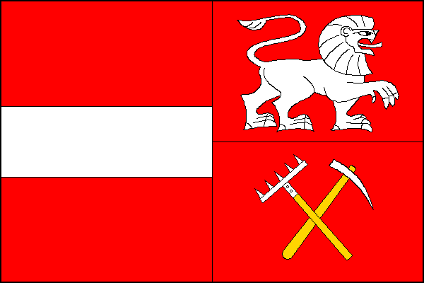 Municipal flag of the city of Horní Blatná, Karlovy Vary District, Czech Republic.